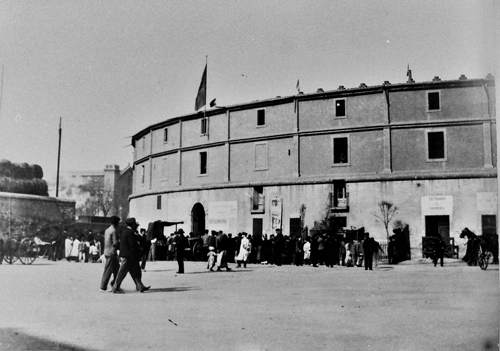 El Torín was the first bullring built in Barcelona, opened in 1834 at the Barceloneta. It was closed in 1923 and demolished in 1946.